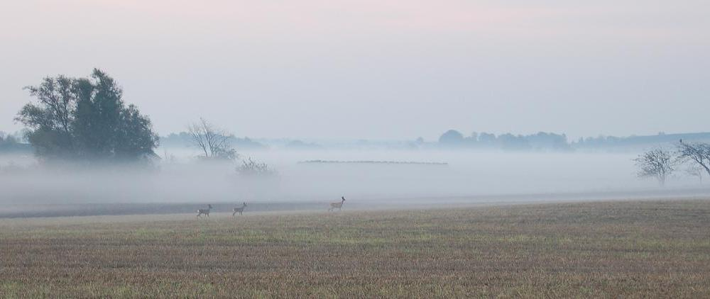 Landscape in southern Scania, Sweden